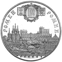 Coin of Ukraine